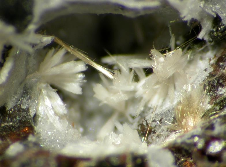 Zorite Locality: Yubileinaya (Yubileinoye; Jubilejnaja) pegmatite, Karnasurt Mt, Lovozero Massif, Kola Peninsula, Murmanskaja Oblast', Northern Region, Russia White Zorite sprays together with some golden-brown acicular Raite xls. Field of view 4 mm. Specimen and photo Leon Hupperichs.